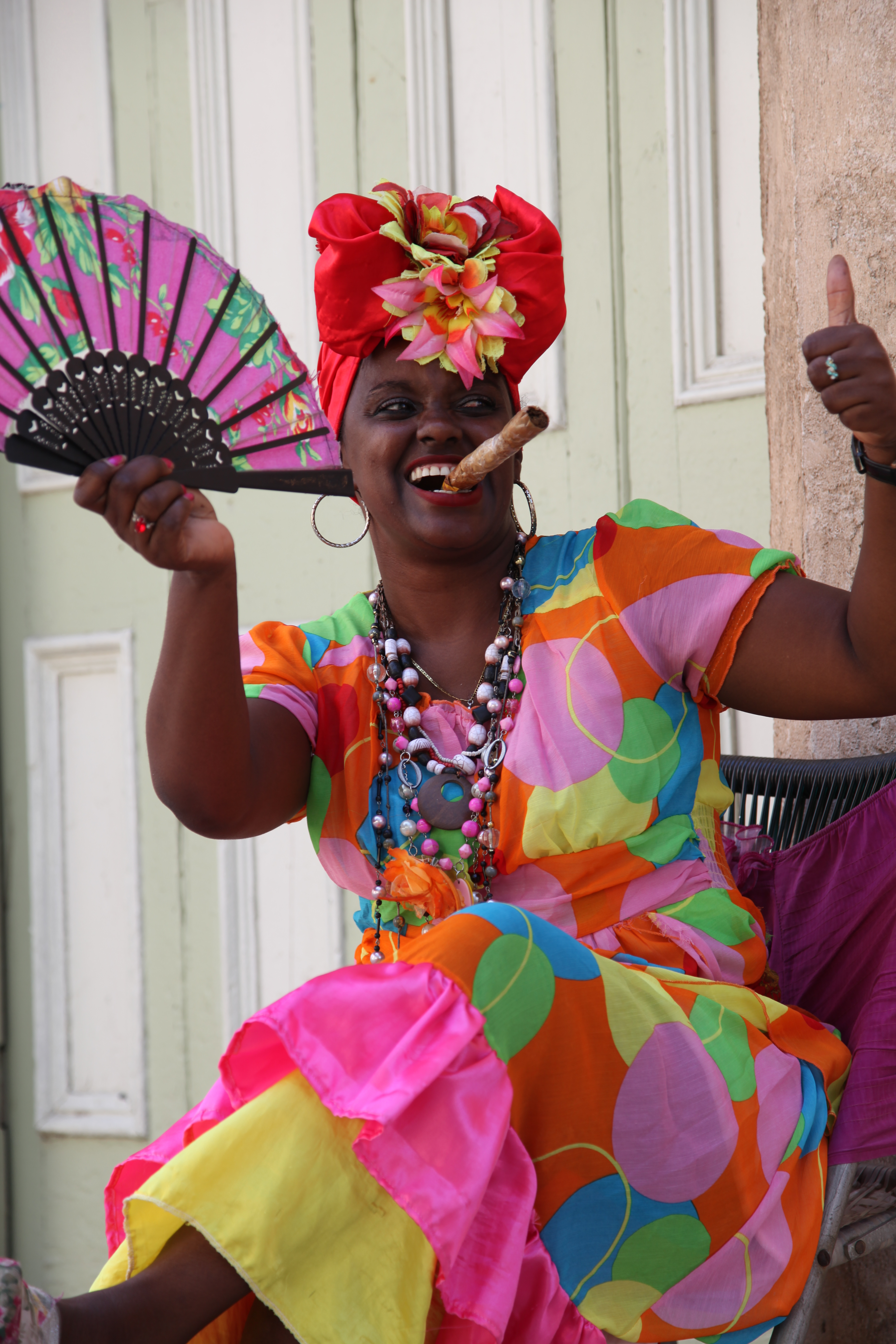 This photo has been taken in the country: Cuba